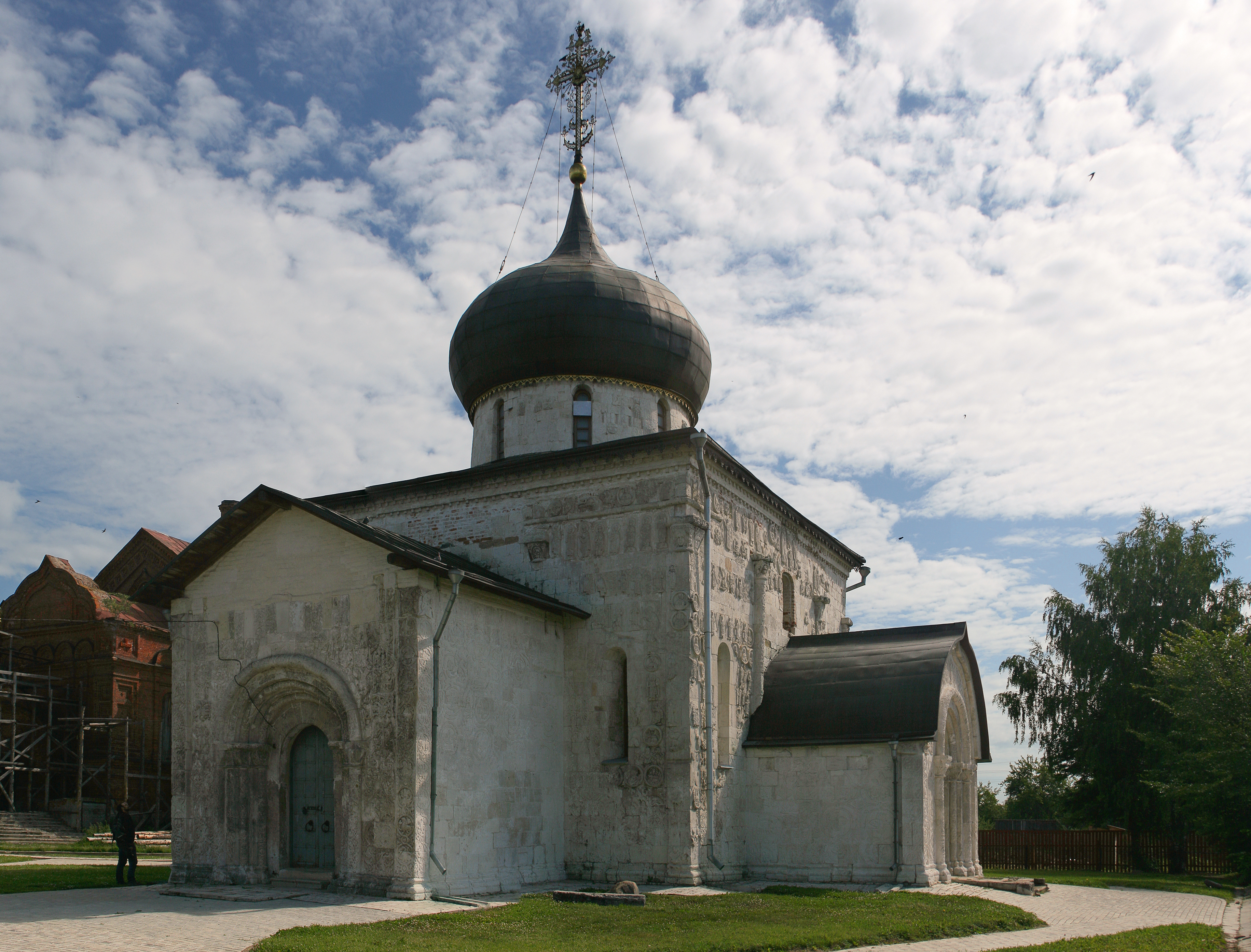 Saint George Cathedral, west side; 1230-1234, Yuryev-Polsky, Vladimir Oblast